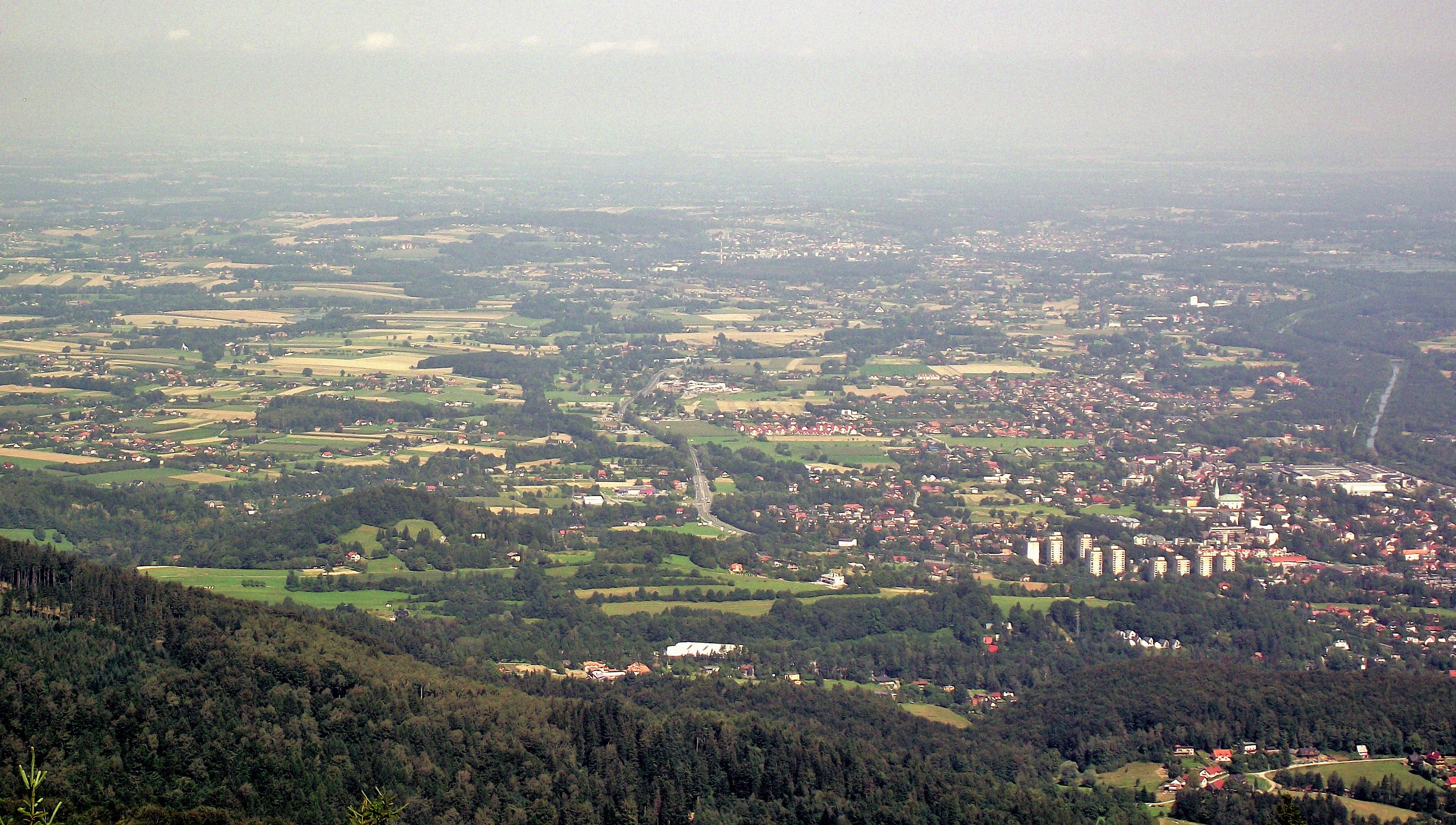 A view from Czantoria of east-central part of Cieszyn Silesia. In the right foreground the town of Ustroń, then Skoczów and in the very background the Goczałkowice Lake.